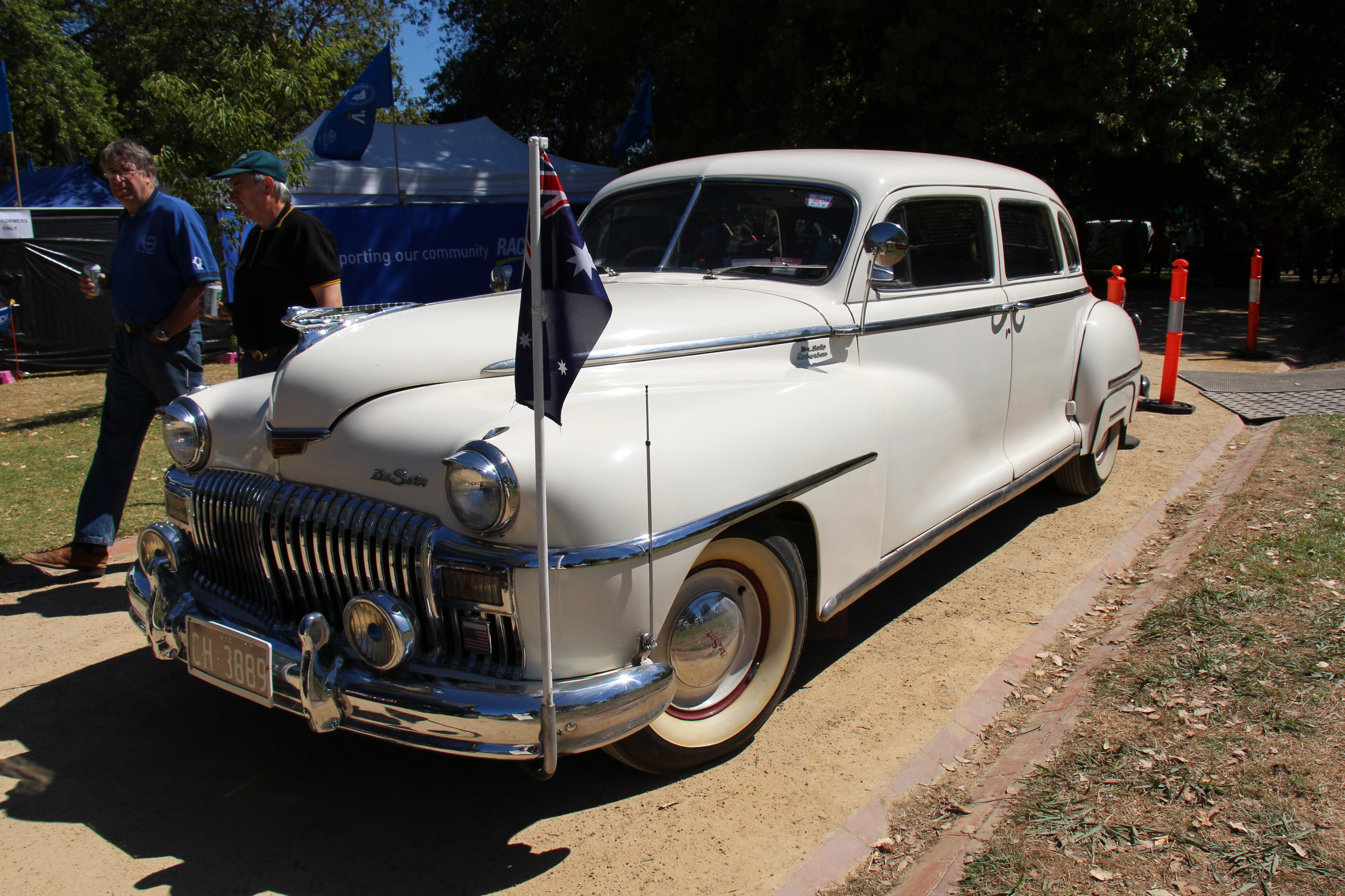 The DeSoto was a brand of automobile, manufactured and marketed by the Chrysler Corporation from 1928 to 1961. The Suburban was DeSotos long wheel base car built from 1946-54. it was capable of carrying 8 passengers. The Suburban was available in Deluxe, Custom and Powermaster Engine; 236.6 cu in 6 cyl